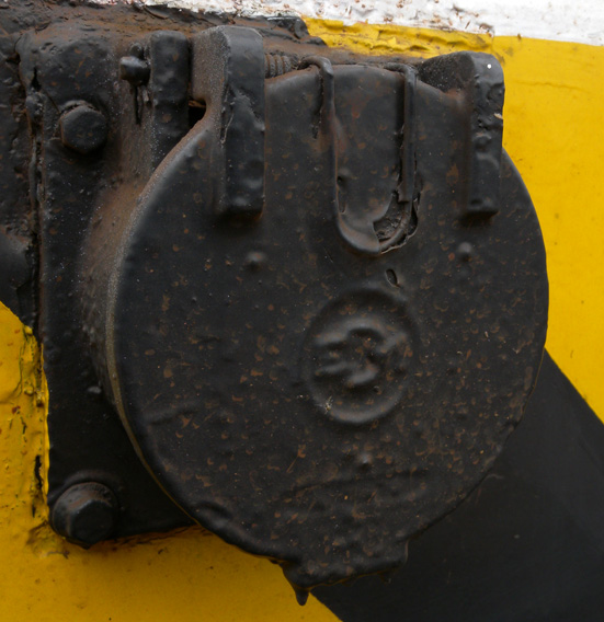 MUC